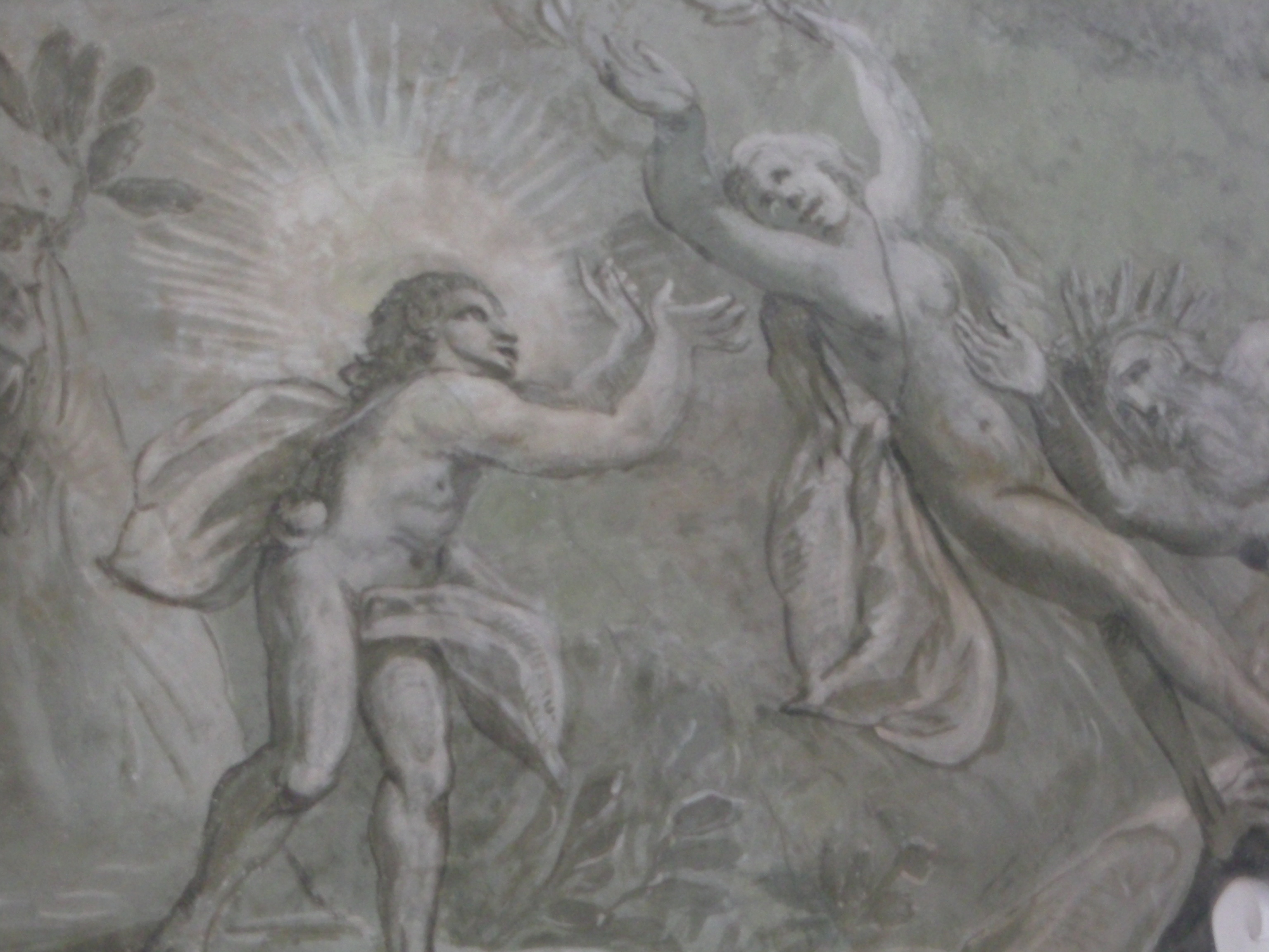 Apollo and Daphne in palace Besenghi degli Ughi, Izola, Slovenia